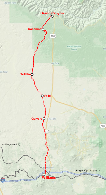 Grand Canyon Railway Legend: ━━━Railway line